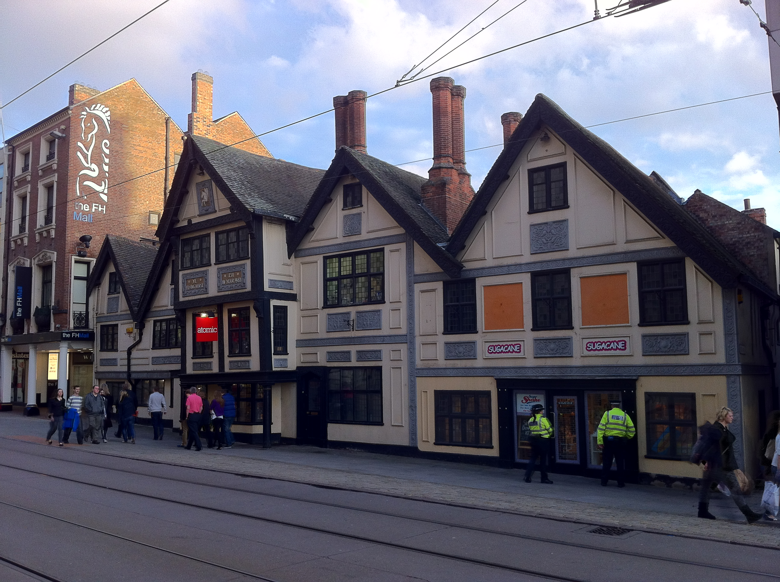 ormer Flying Horse Public House, Nottingham